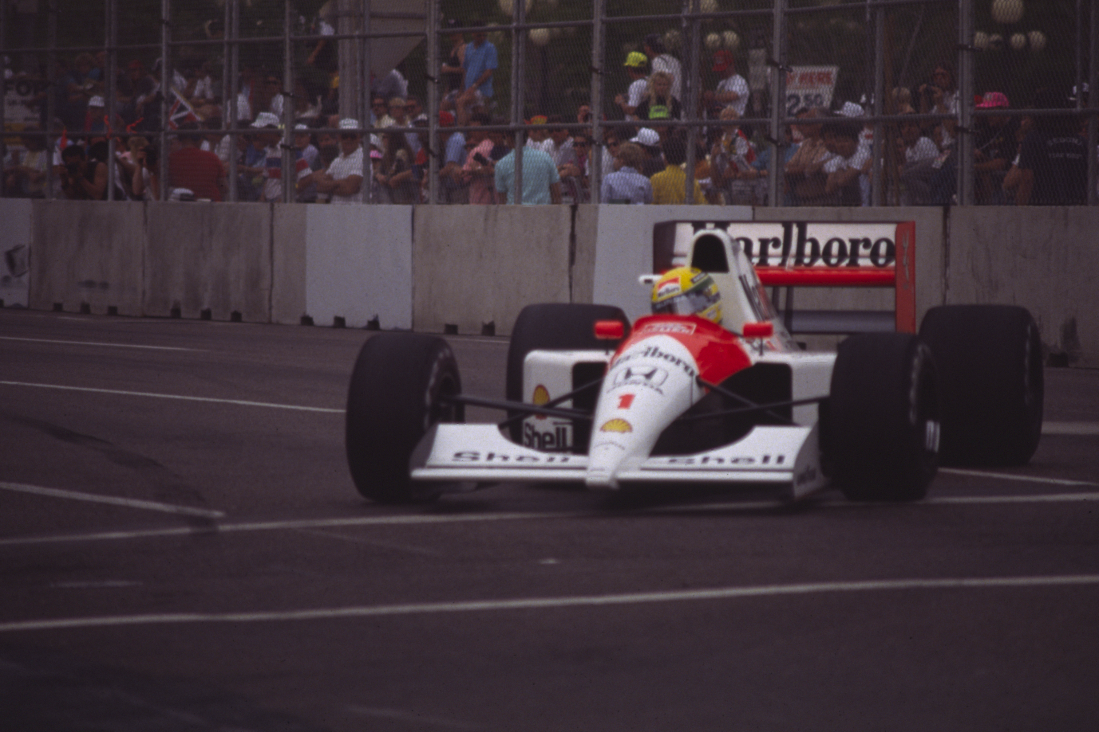 Ayrton Senna driving for McLaren at the 1991 United States Grand Prix.